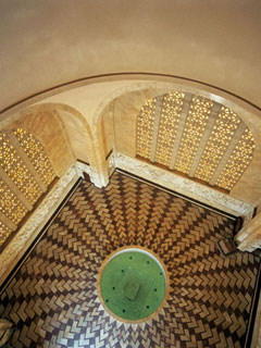 View through floor aperture on cenotaph, Voortrekker Monument, Pretoria